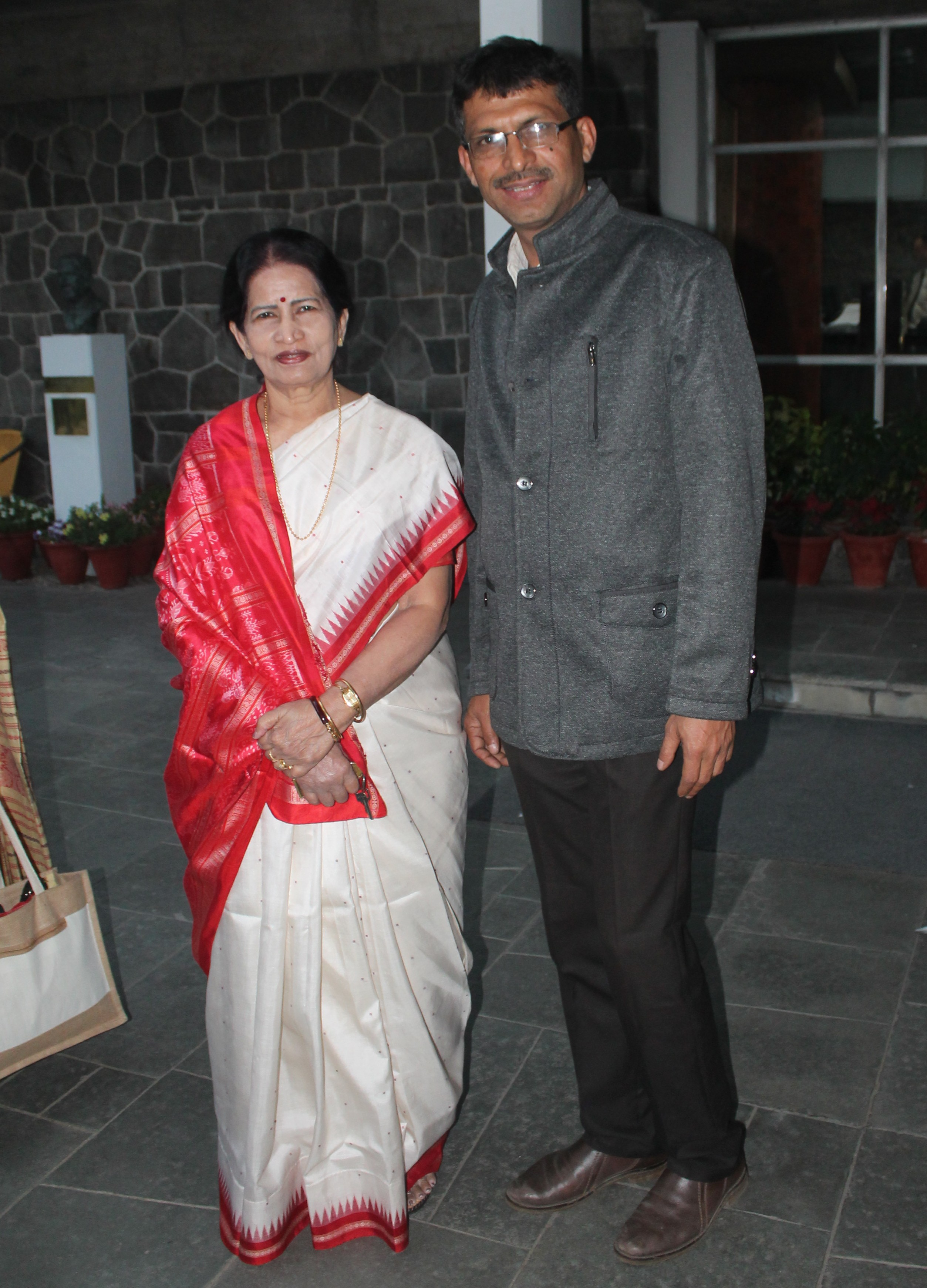 Indian writer Pratibha Ray with Nepali poet Suman Pokhrel